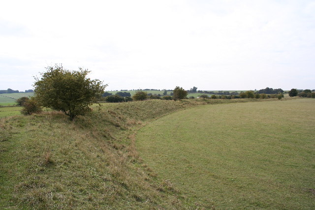 Segsbury Camp. Fortification on south side parallel to Ridgeway